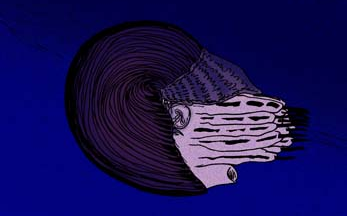 Aturia alabamensis by Apokryltaros